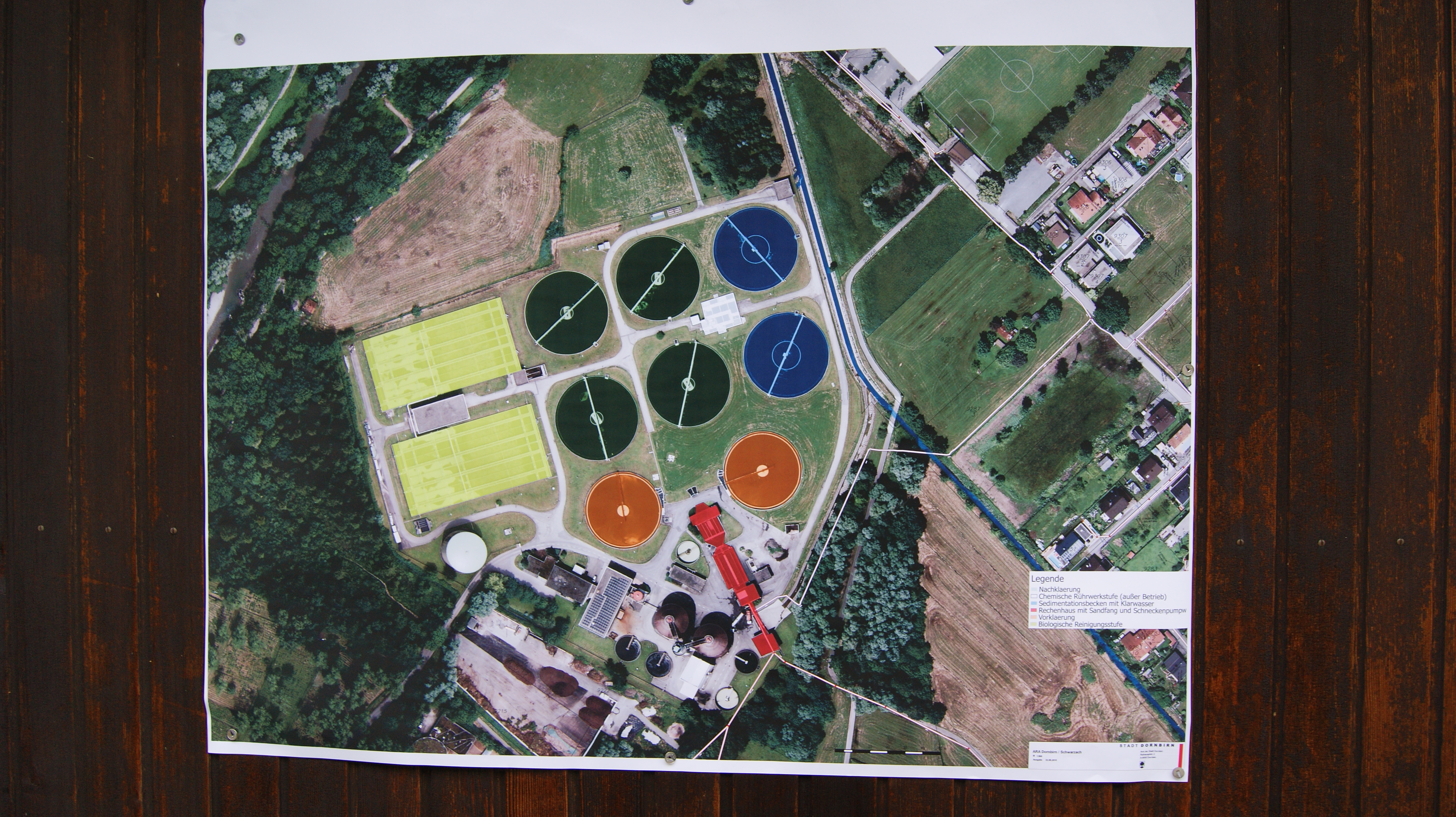 Sewage treatment plant Dornbirn-Schwarzach in Vorarlberg, Austria. General plan.